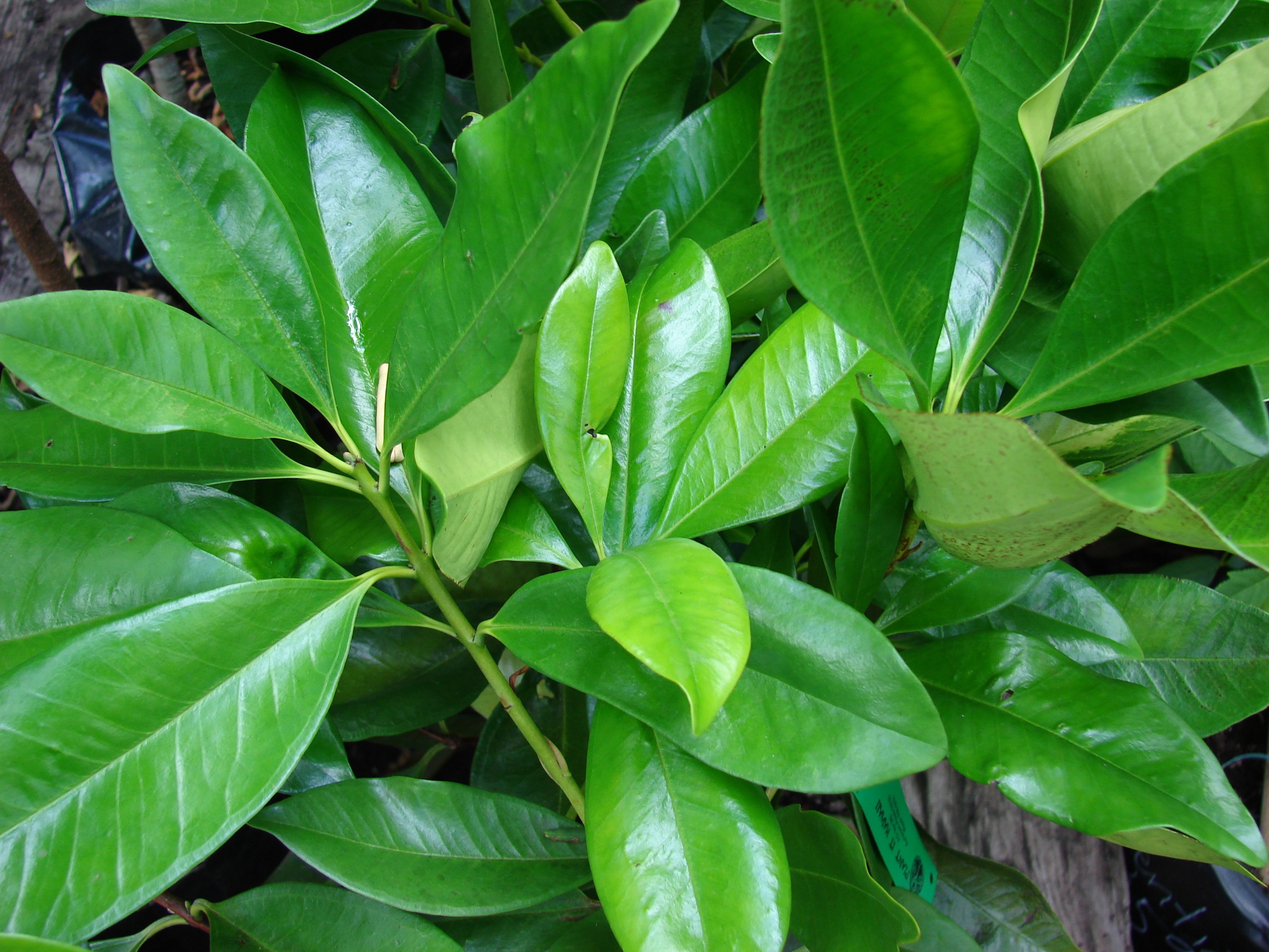 Eugenia brasiliensis (habit). Location: Maui, Kula Ace Hardware and Nursery